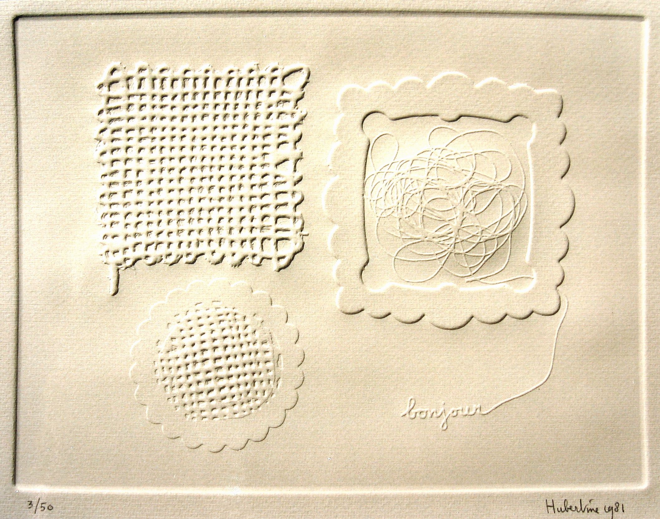 Etching by embossment on a light-sensitive metal plate 24x30cm'81